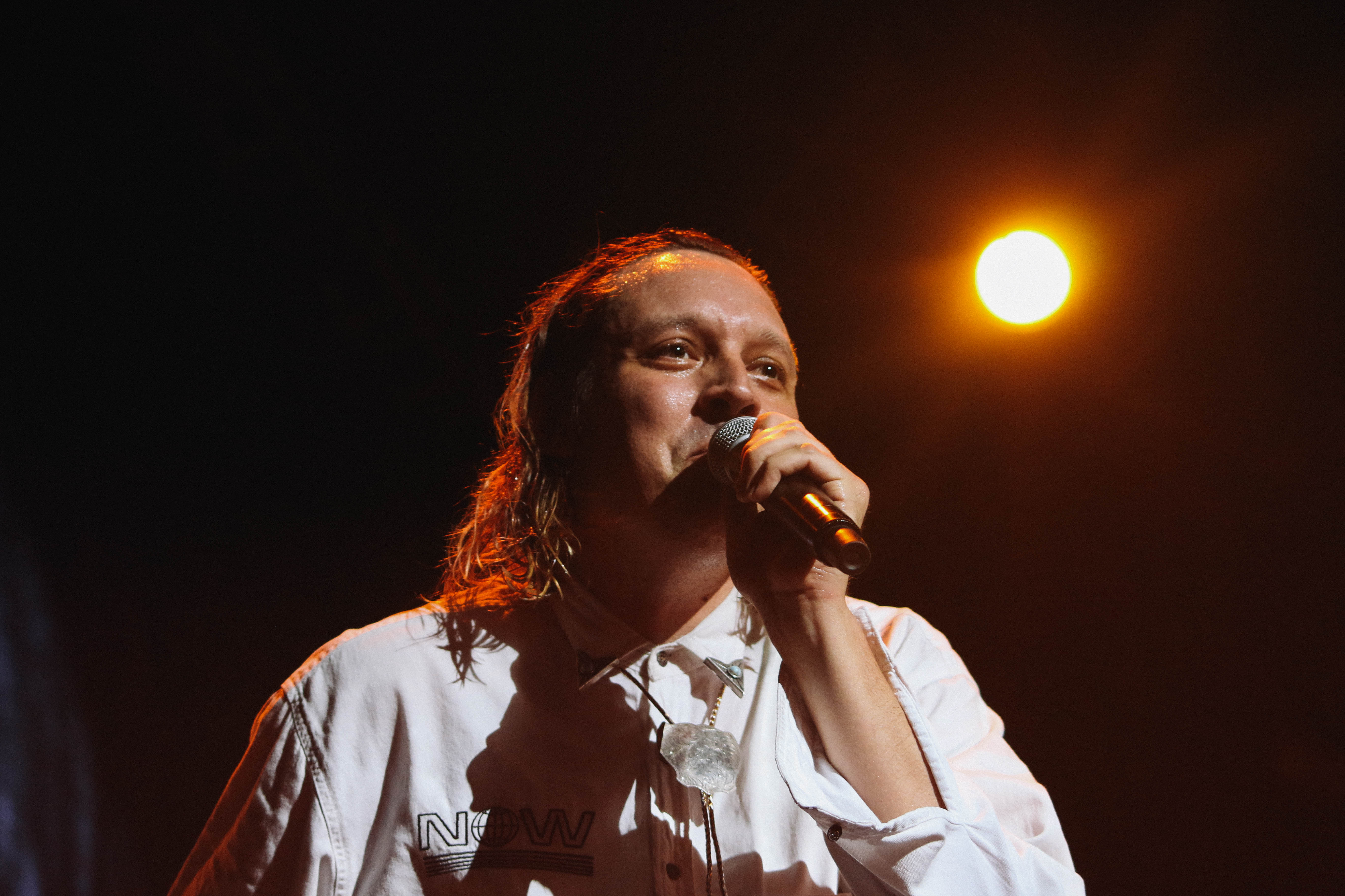 Photo of Arcade Fire performing at Festival BUE in 2017 (Carla Huysmans)